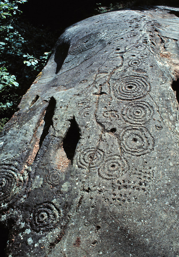 Carschenna (Graubunden – CH), concentric circles prehistoric composition